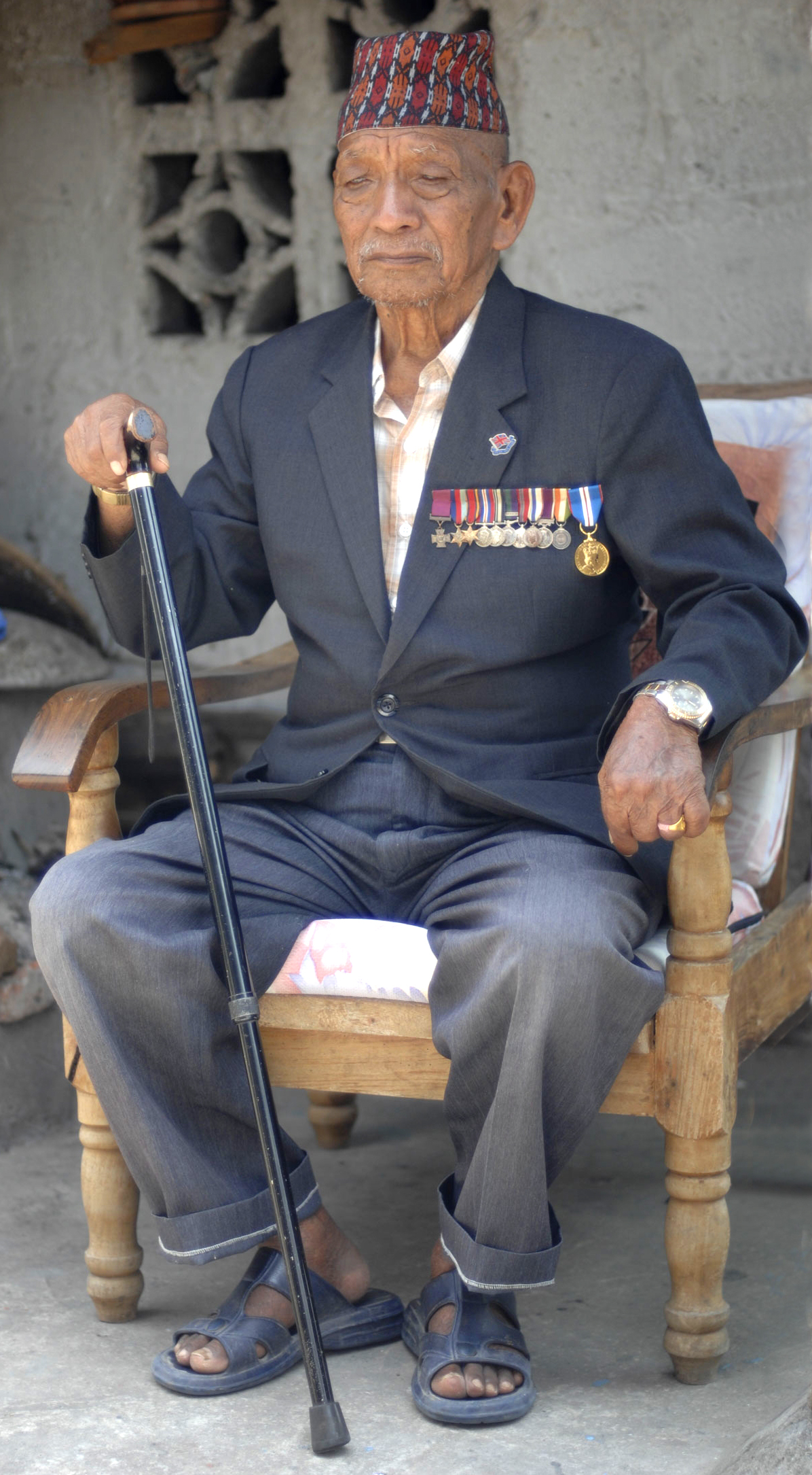 Alex McPherson, Howe & Co Solicitors, Craven House, 40 Uxbridge Road, Ealing, London W5 2BS